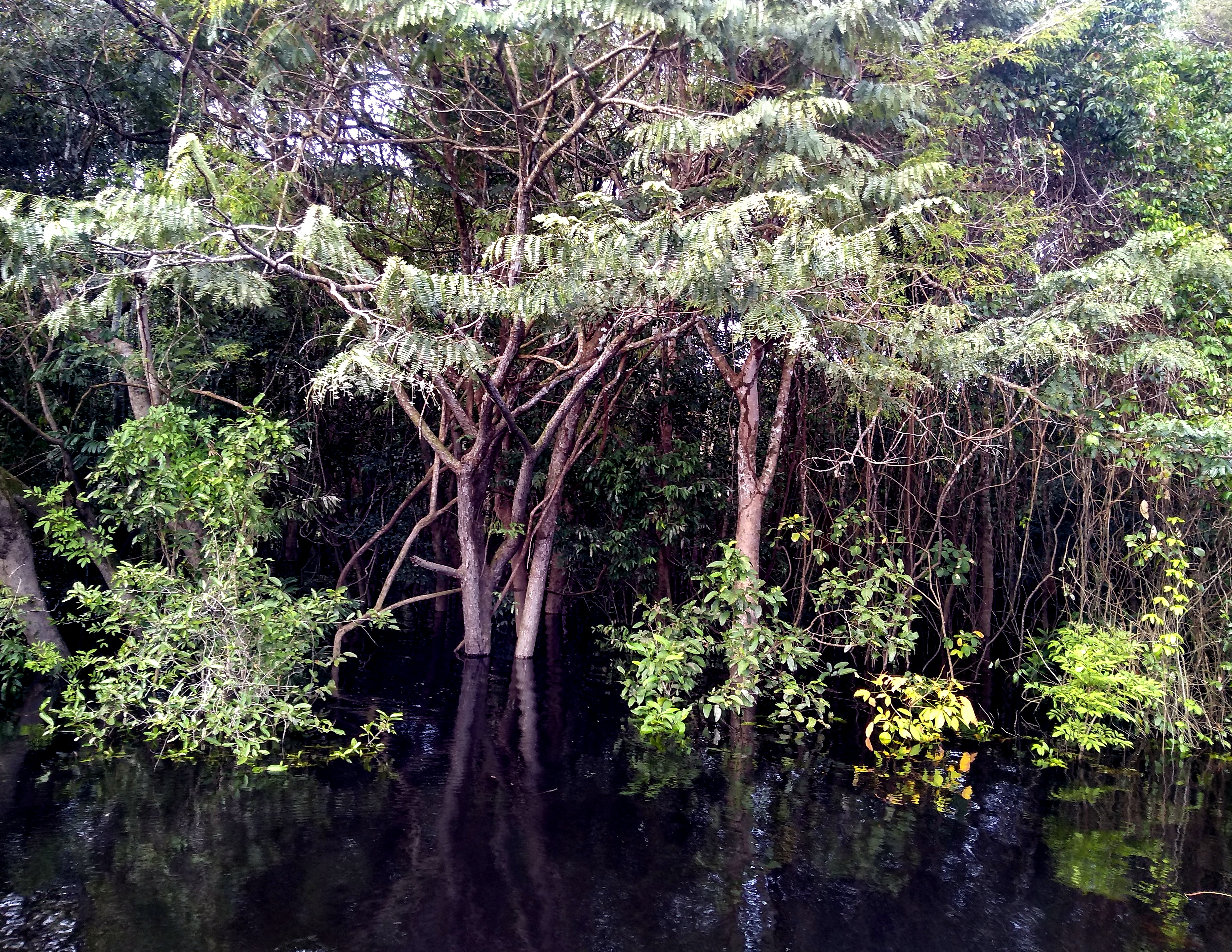 Igapó forest at Anavilhanas National Park, Rio Negro, Novo Airão, Amazonas, Brazil